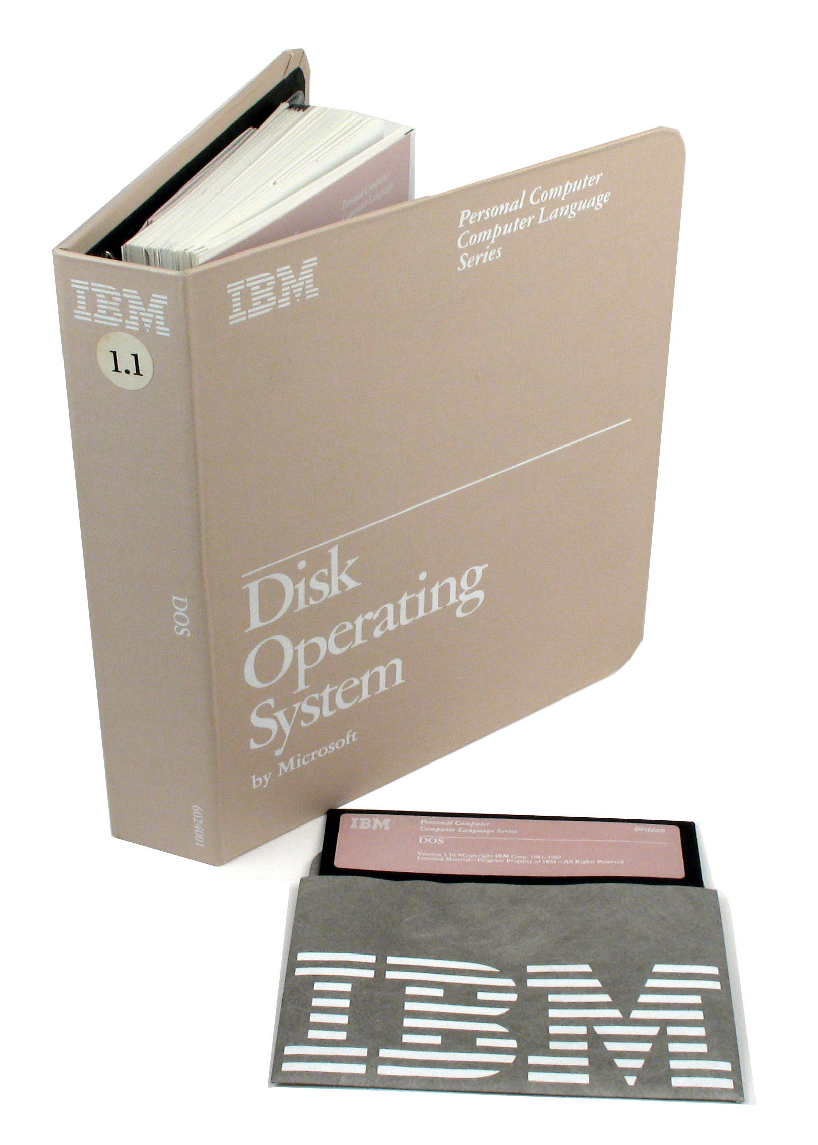 User Manual and diskette for IBM DOS 1.1. This was released in 1982 for the original IBM PC (Model 5150). Photo by Michael Holley, July 2007. Taken with a Canon PowerShot A630 and touched up with Adobe Photoshop Elements.